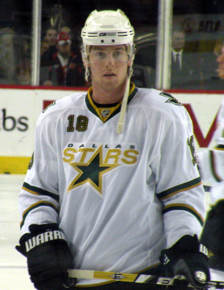 Dallas Stars forward James Neal during warm-up prior to a National Hockey League game against the Calgary Flames, in Calgary.